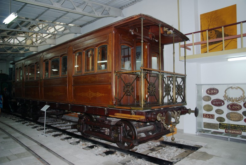 GREECE: The Royal Saloon of Athens-Piraeus Railway (1888), preserved at the Railway Museum of Athens.